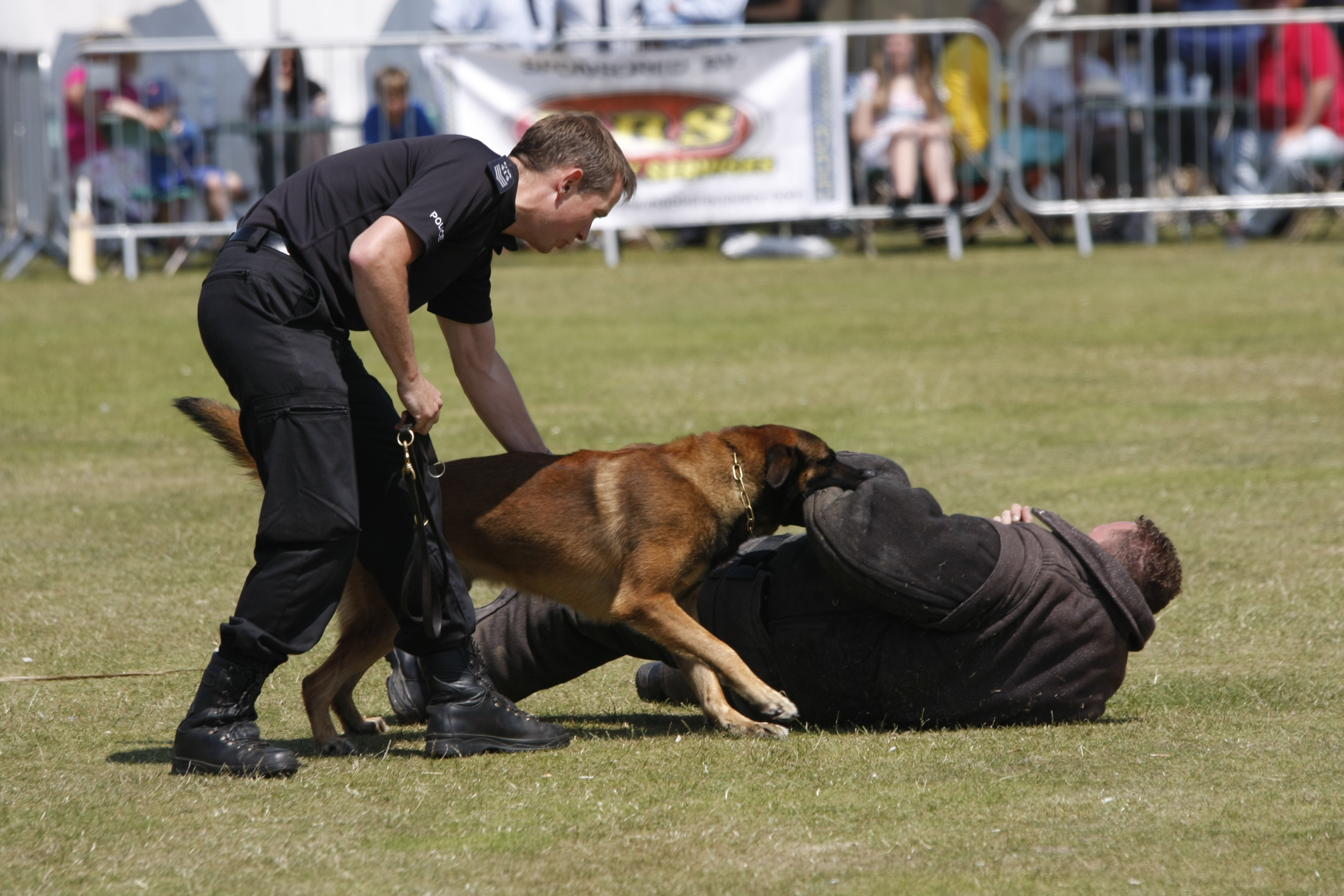 999 Emergency Services Display, Eastbourne, 6th July 2013